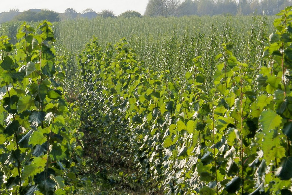 6 months old short rotation plantation in Germany - poplars front, willows back to the right